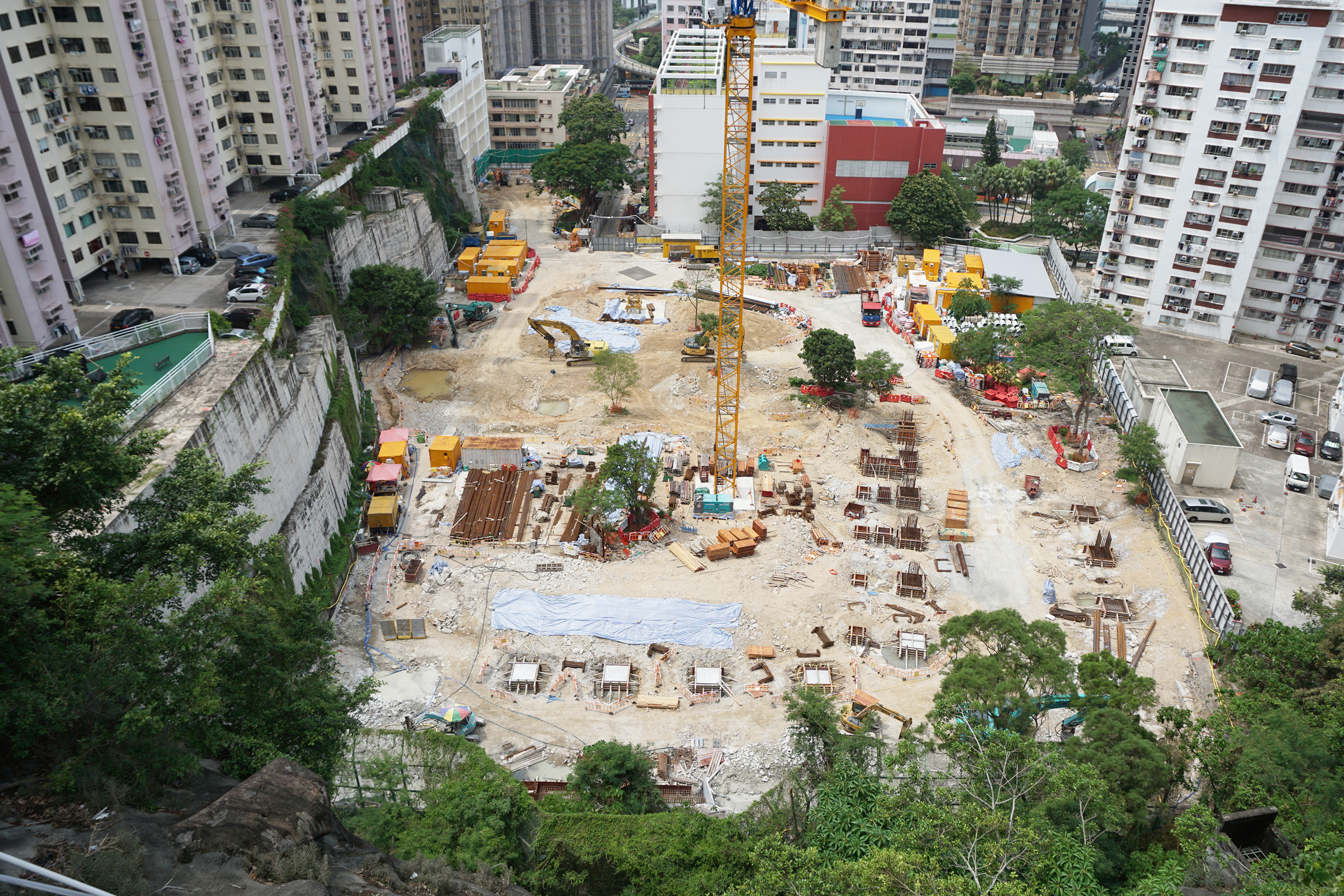 New Campus of North Point Methodist and Pun U Association Wah Yan Primary School, Hong Kong.